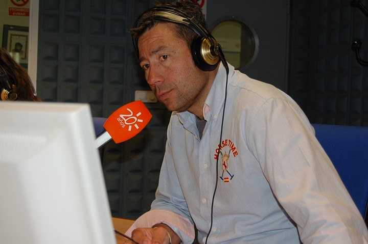 Spanish showman Pepe Da-Rosa